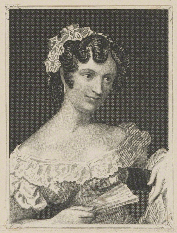 Portrait of Harriet Waylett (1798–1851), English actress, in character as as Miss Dorville.